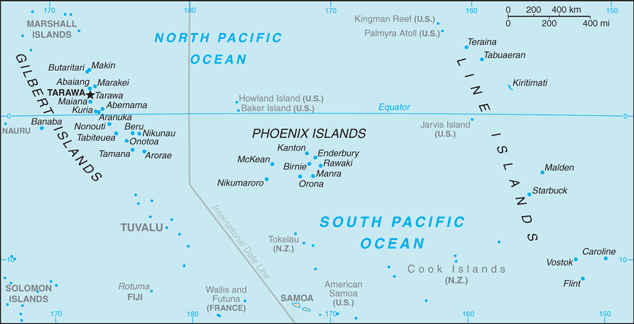 Map of Kiribati.